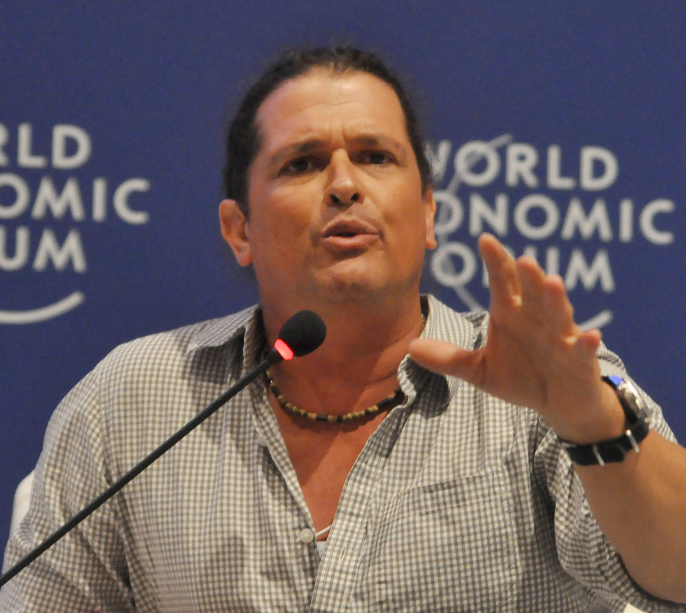 CARTAGENA/COLOMBIA,07APRIL2010 - Carlos Vives, Singer, Composer and Actor in the session Music for Social Change at the World Economic Forum on Latin America 2010 in Cartagena Convention Center from 6 - 8 April. Copyright World Economic Forum / Edgar Alberto Domínguez Cataño